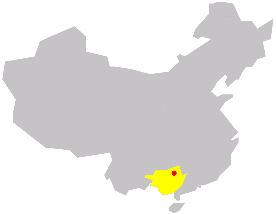 Description: position of Guilin in China Source: own work Date: December 2005 Author: --Immanuel Giel 12:30, 15 December 2005 (UTC) Other versions: none